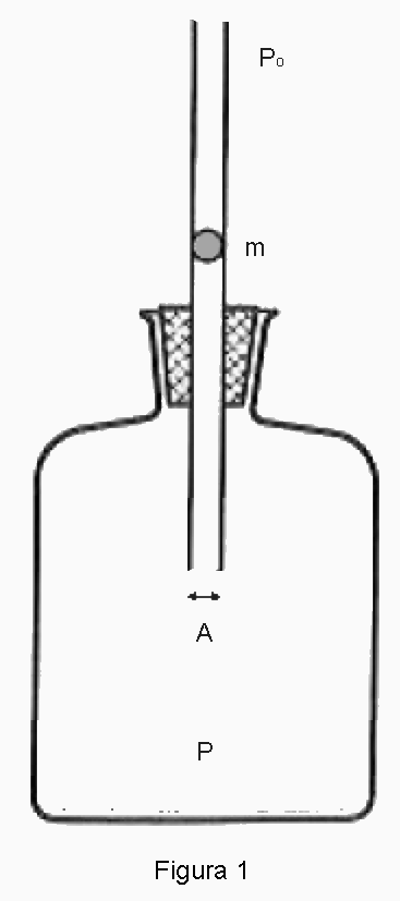 sketch of Rücardt apparatus